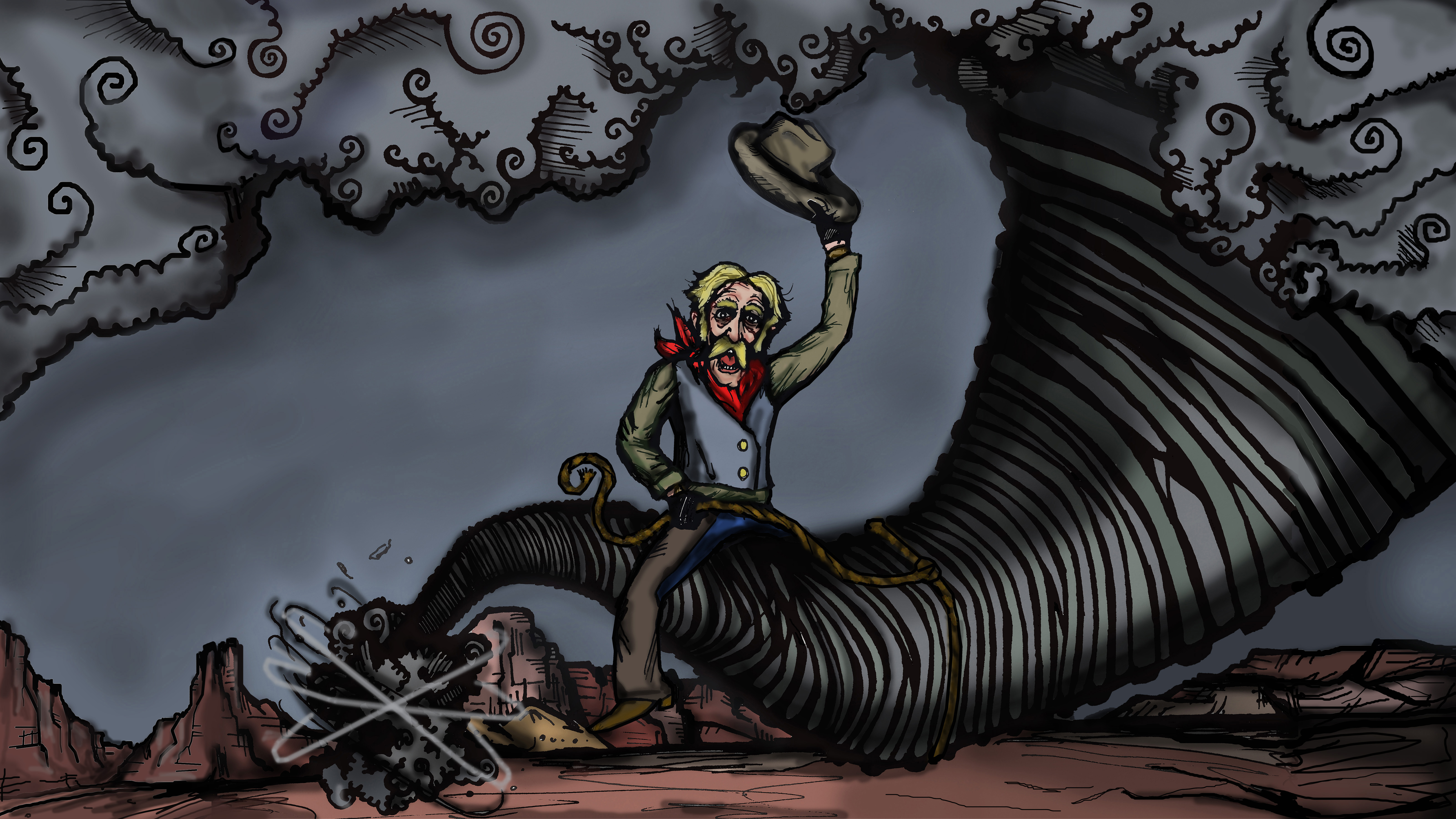 On one of his adventures, Pecos Bill managed to lasso a tornado.